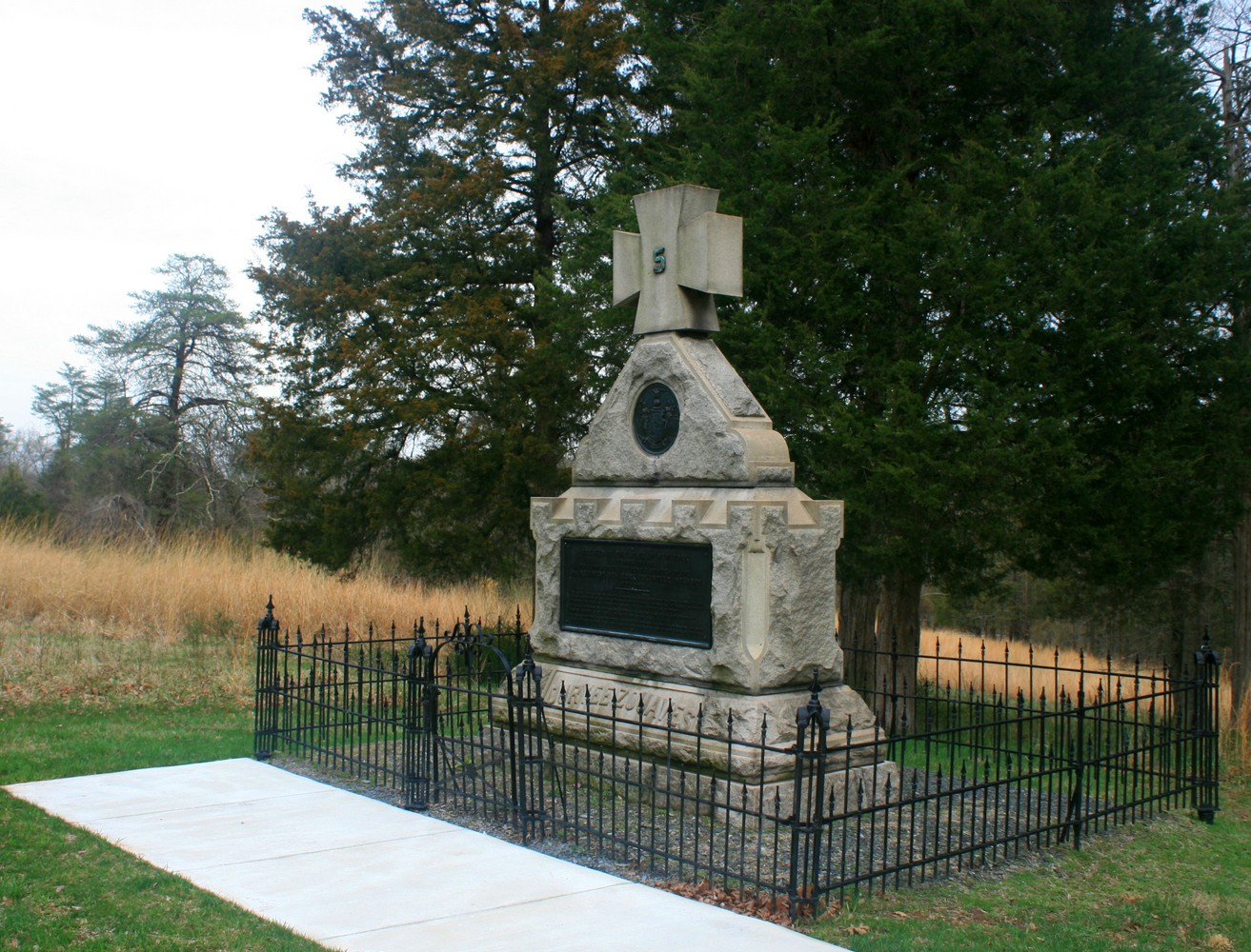 Monument of 5th New York Infantry Regiment (Duryee’s Zouaves) at Manassas